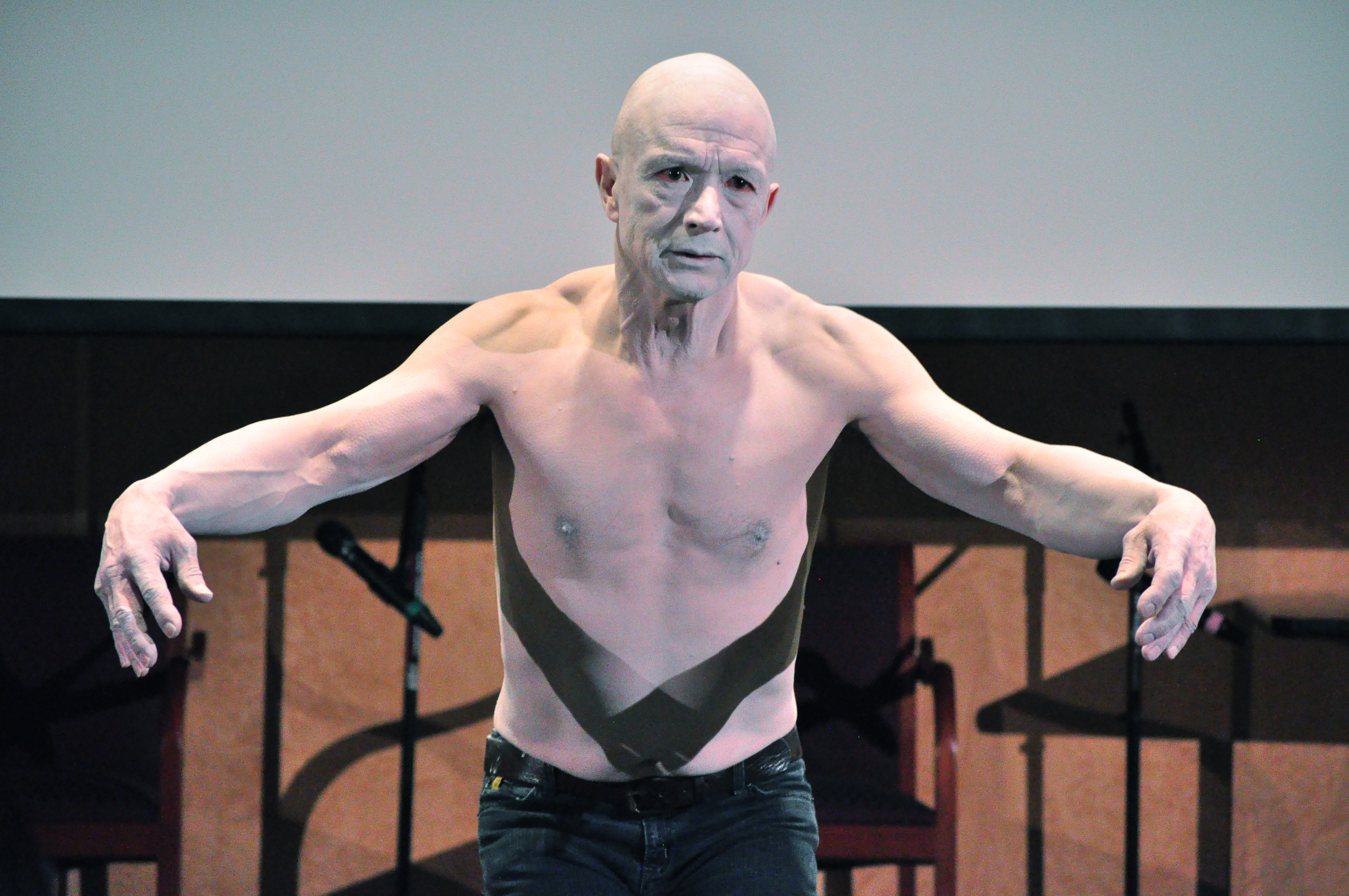 Jay Hirabayashi, son of Gordon and Esther Hirabayashi presents a butoh performance in memory of his parents. With his wife Barbara Bourget, he founded the butoh dance company Kokoro Dance. Photographed at Courage in Action: the Life and Legacy of Gordon K. Hirabayashi, a symposium on the occasion of the presentation of Jay's father Gordon K. Hirabayashi's Medal of Freedom to the the University of Washington Library Special Collections, which holds the Gordon Hirabayshi Papers, February 22, 2014.